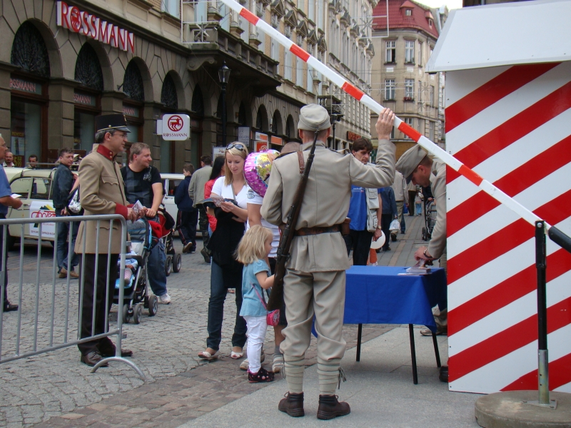 The historic border (1772-1918) between Austrian Galicia and Austrian Silesia, Bielsko-Biała